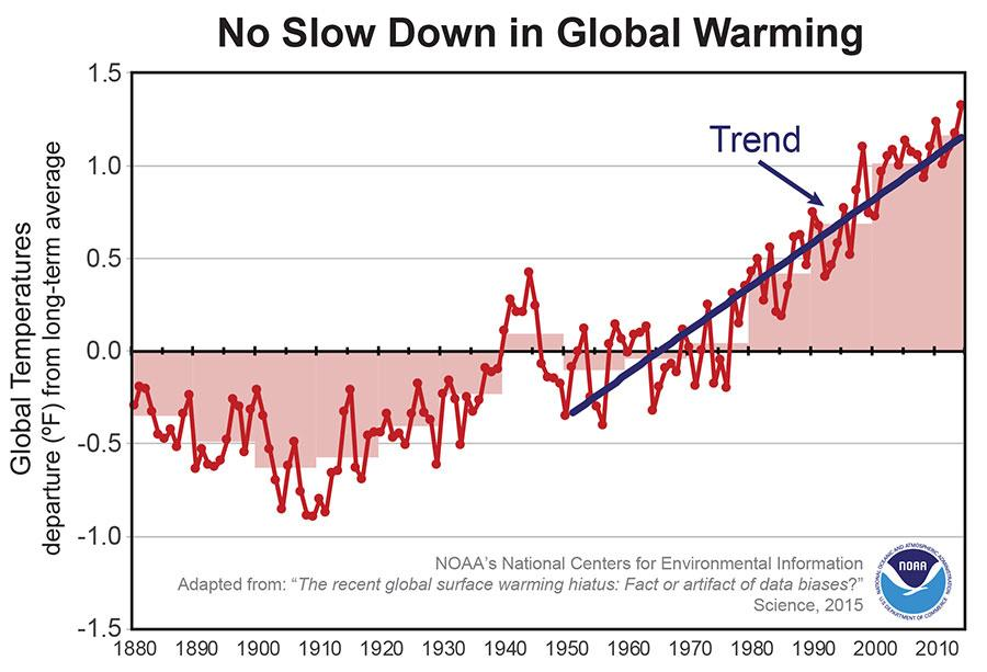 Graph from a study by the National Oceanic and Atmospheric Administration’s (NOAA’s) National Centers for Environmental Information (NCEI) and LMI using the latest global surface temperature data.